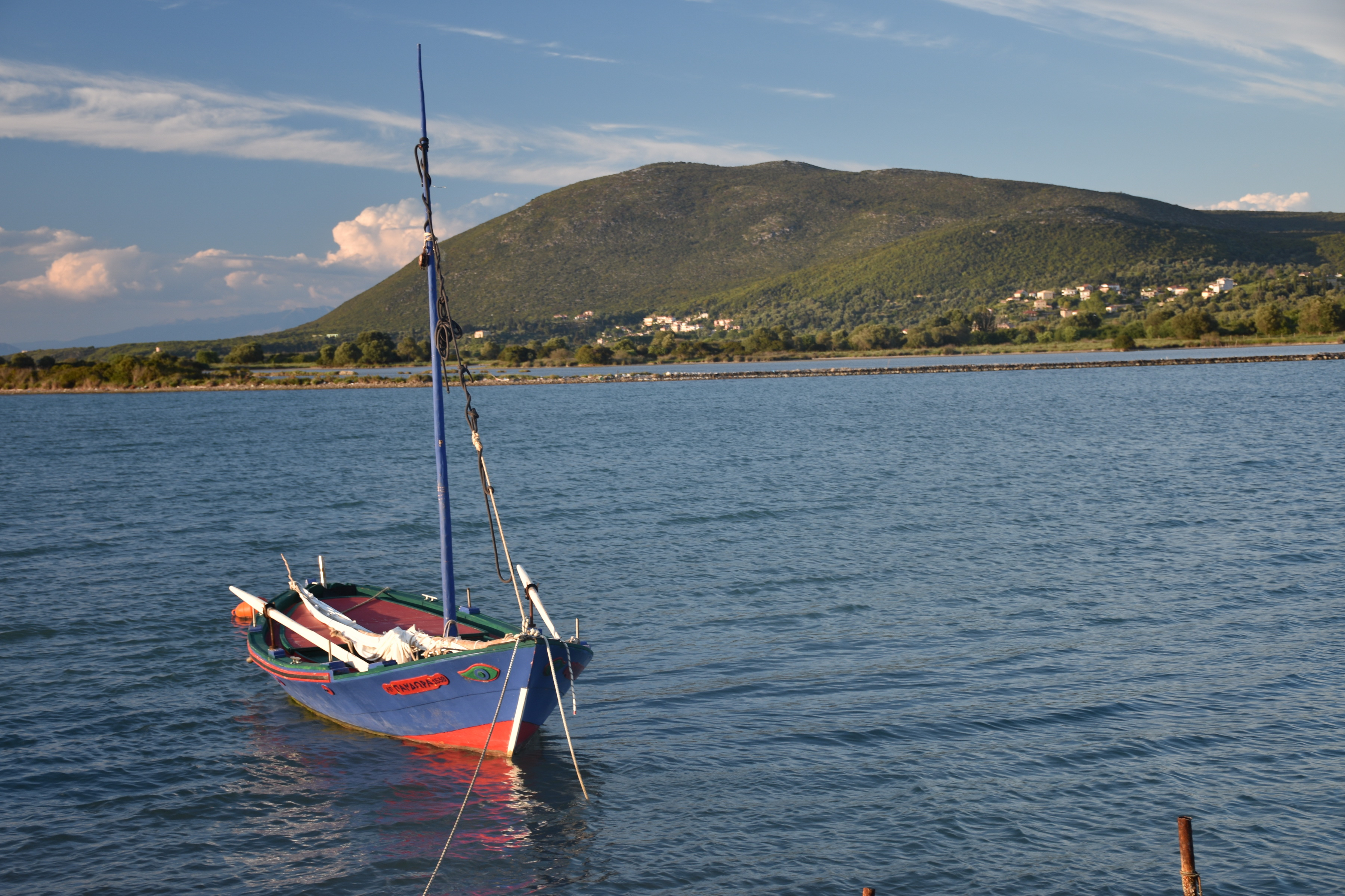 This is a photography of Natura 2000 protected area with ID GR2240001